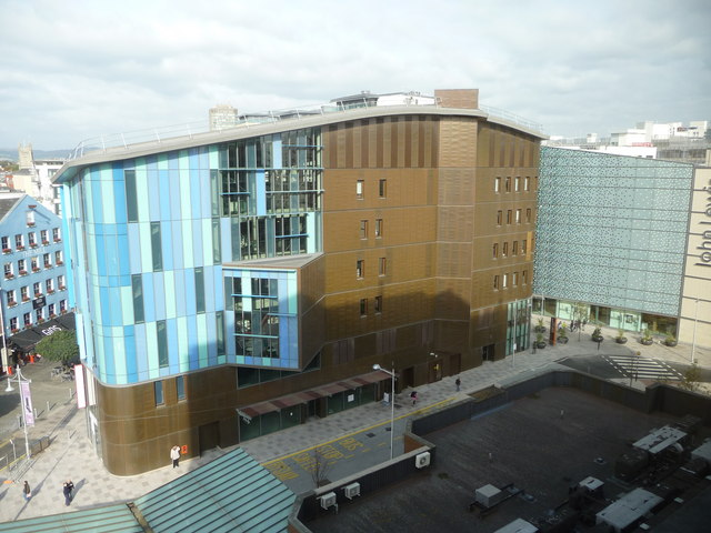 Future Cardiff? A triumph of fashion over function? Or cutting edge architecture to make a capital city proud? Apparently a library?